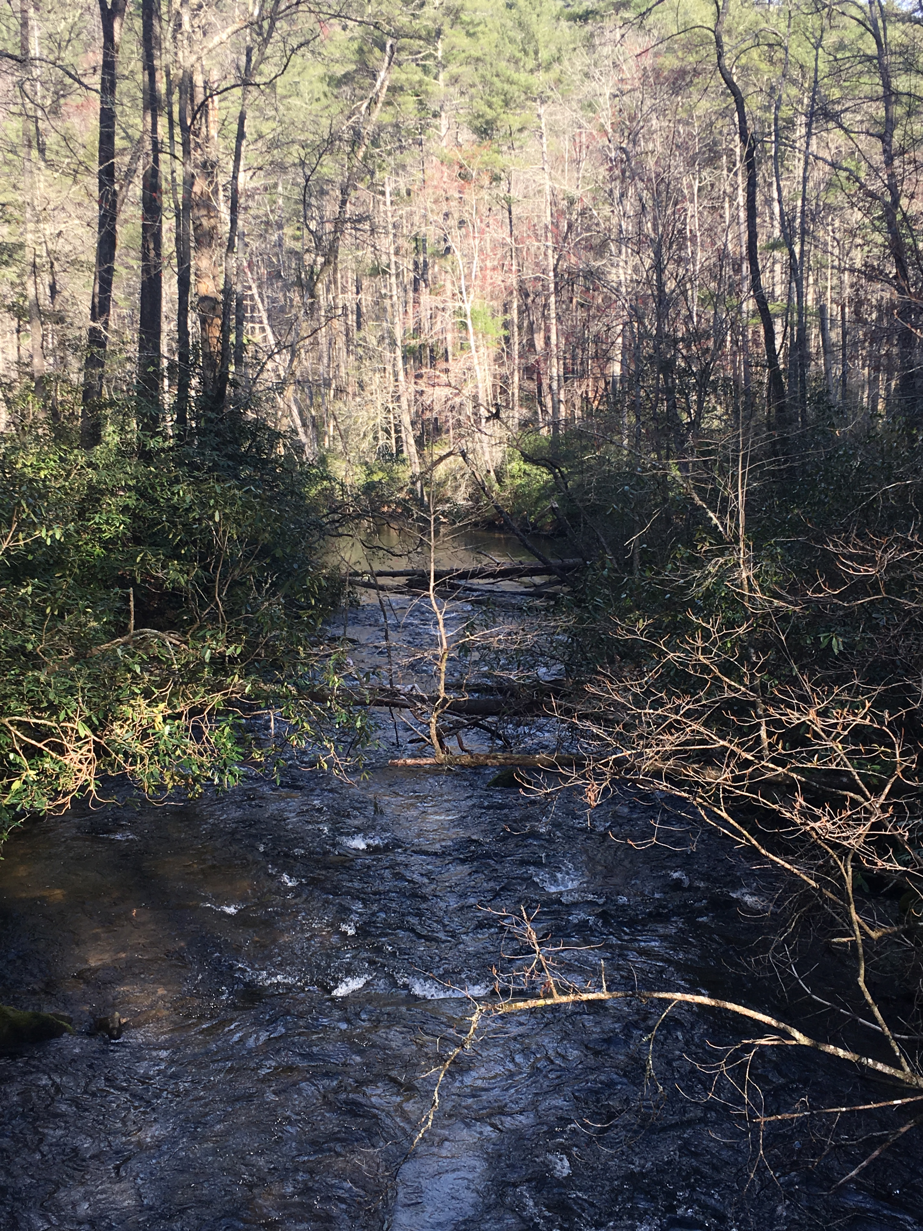 The East Fork of the Chattooga Wild and Scenic River just upstream of where the two meet.